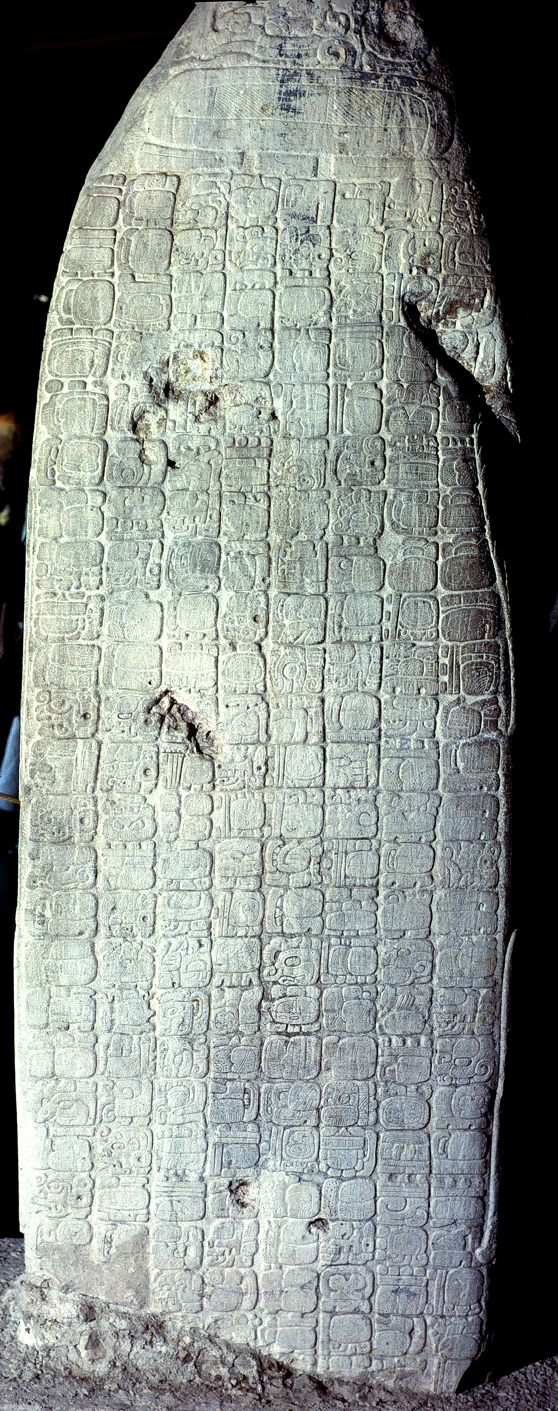 Tikal, Guatemala: Stela 31 back